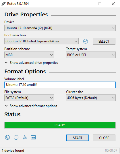 Rufus Screenshot Version 3.0